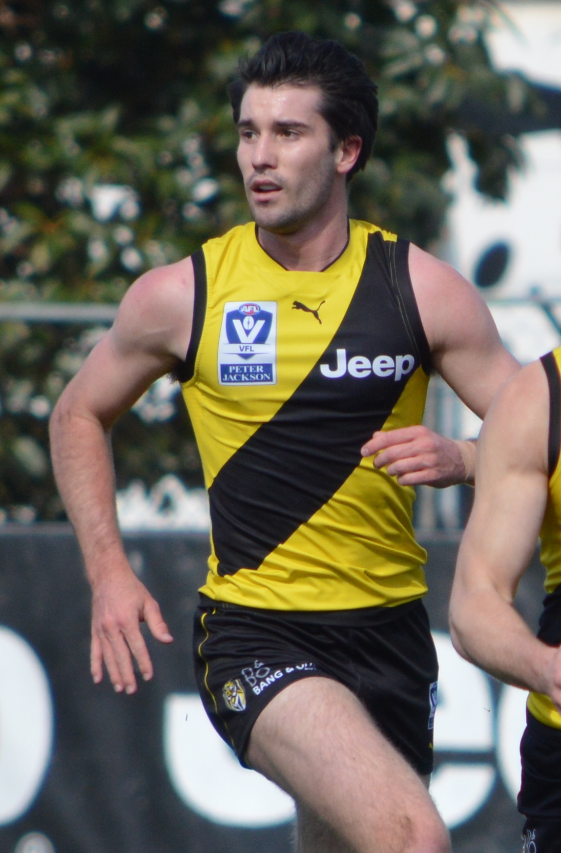 Corey Ellis during a VFL match in August 2017